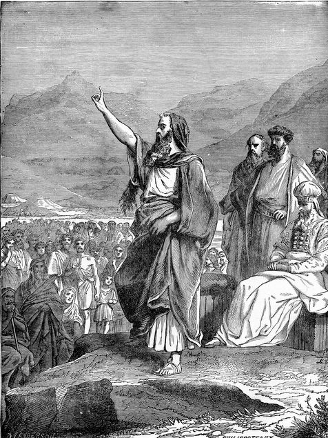 Moses speaks to Israel, as In Deuteronomy 1